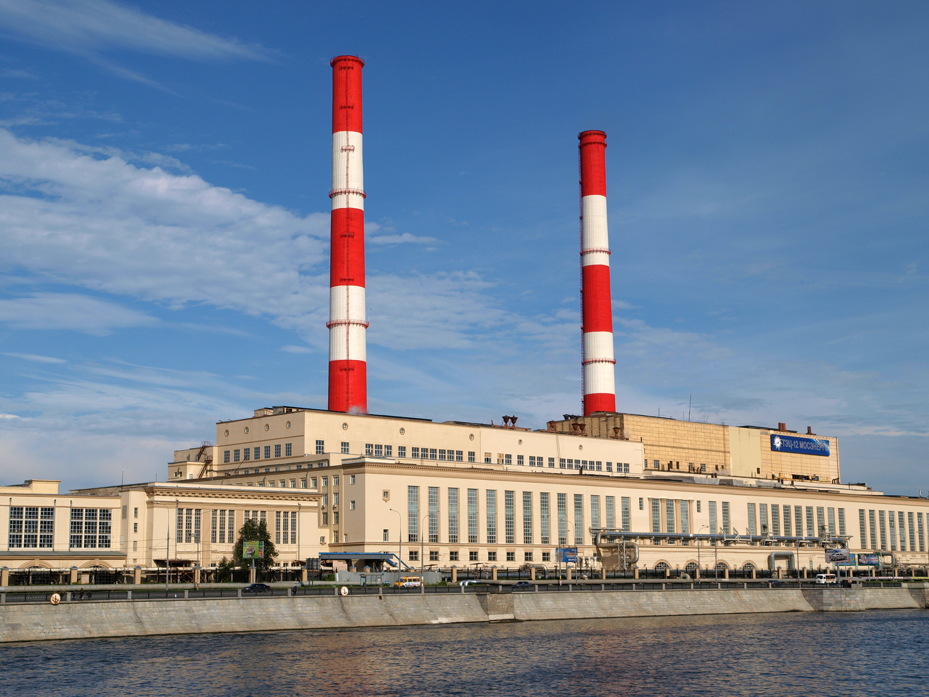 Berezhkovskaya Embankment, Moscow - the 12th city powerplant, commissioned in June 1941.